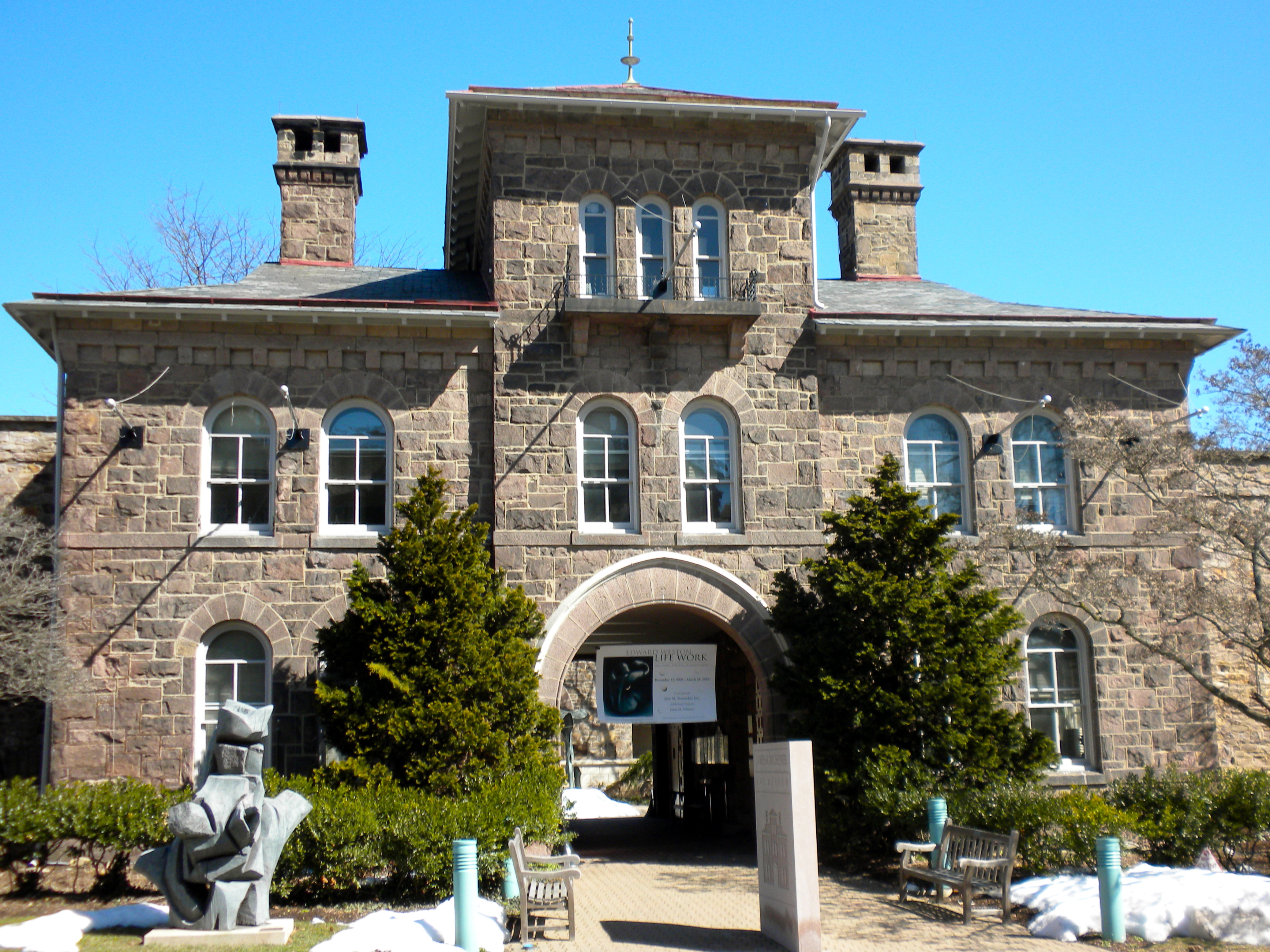 James Michener Museum in Doylestown, Pennsylvania. Across the street from the NHL Murcer Museum. James Michener is the famous author. This museum specializes in Pennsylvania impressionists